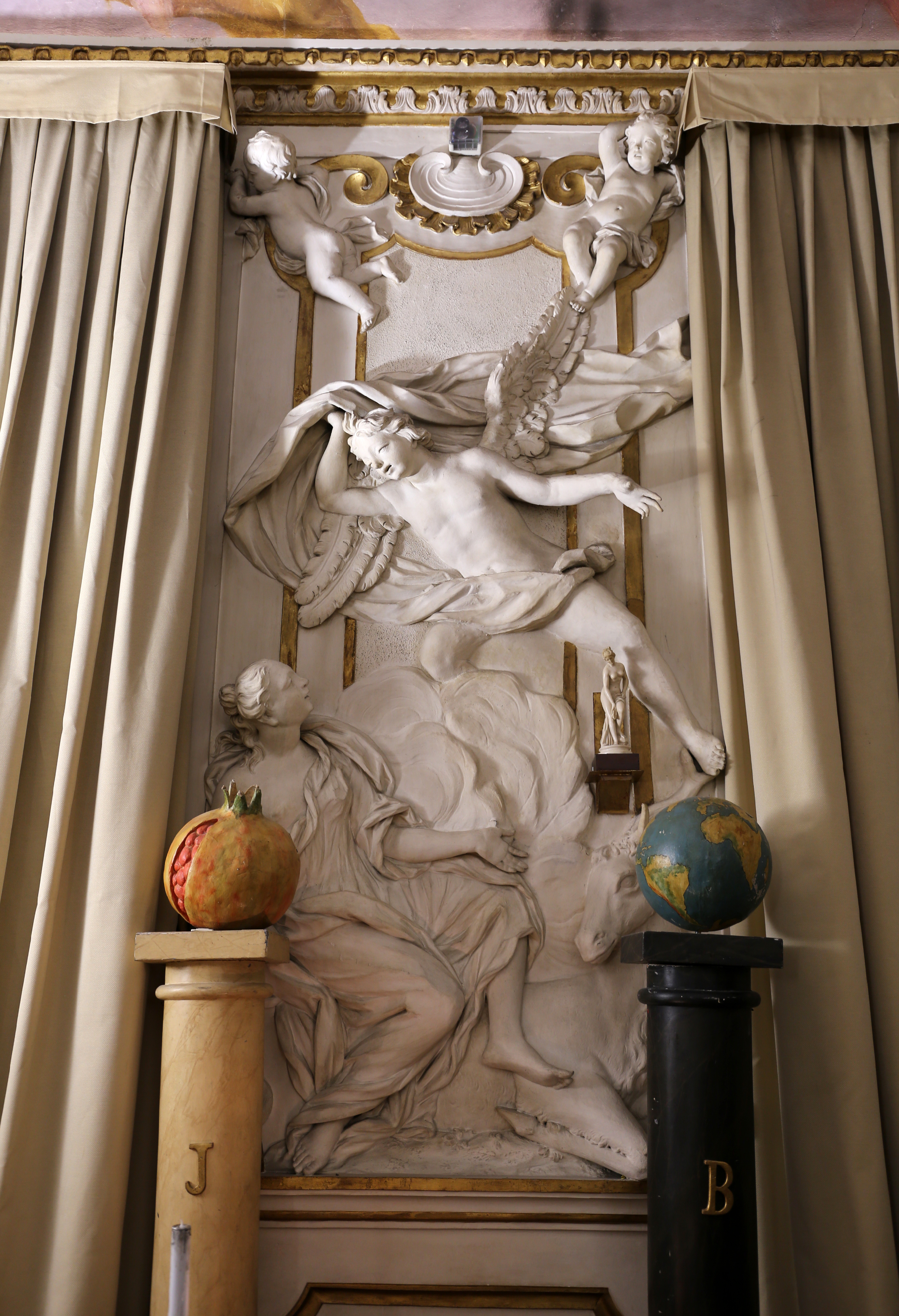 Palazzo dei Visacci - Interior